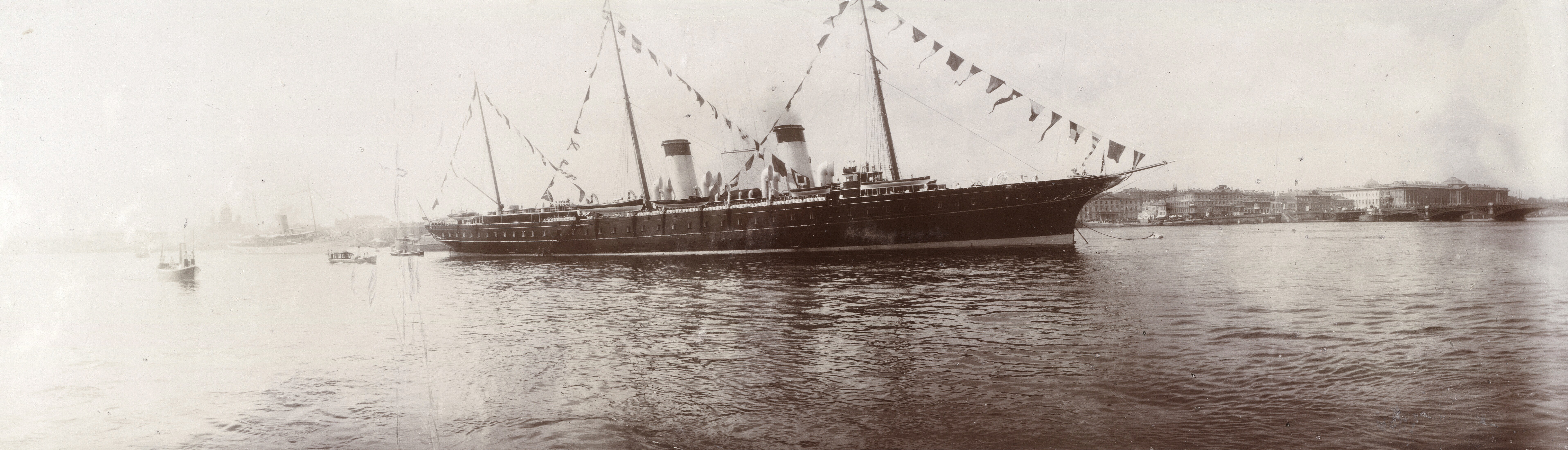 Photographs and family snapshots from six albums rescued by a family friend of the imperial family. Beinecke Rare Book and Manuscript Library, Yale University